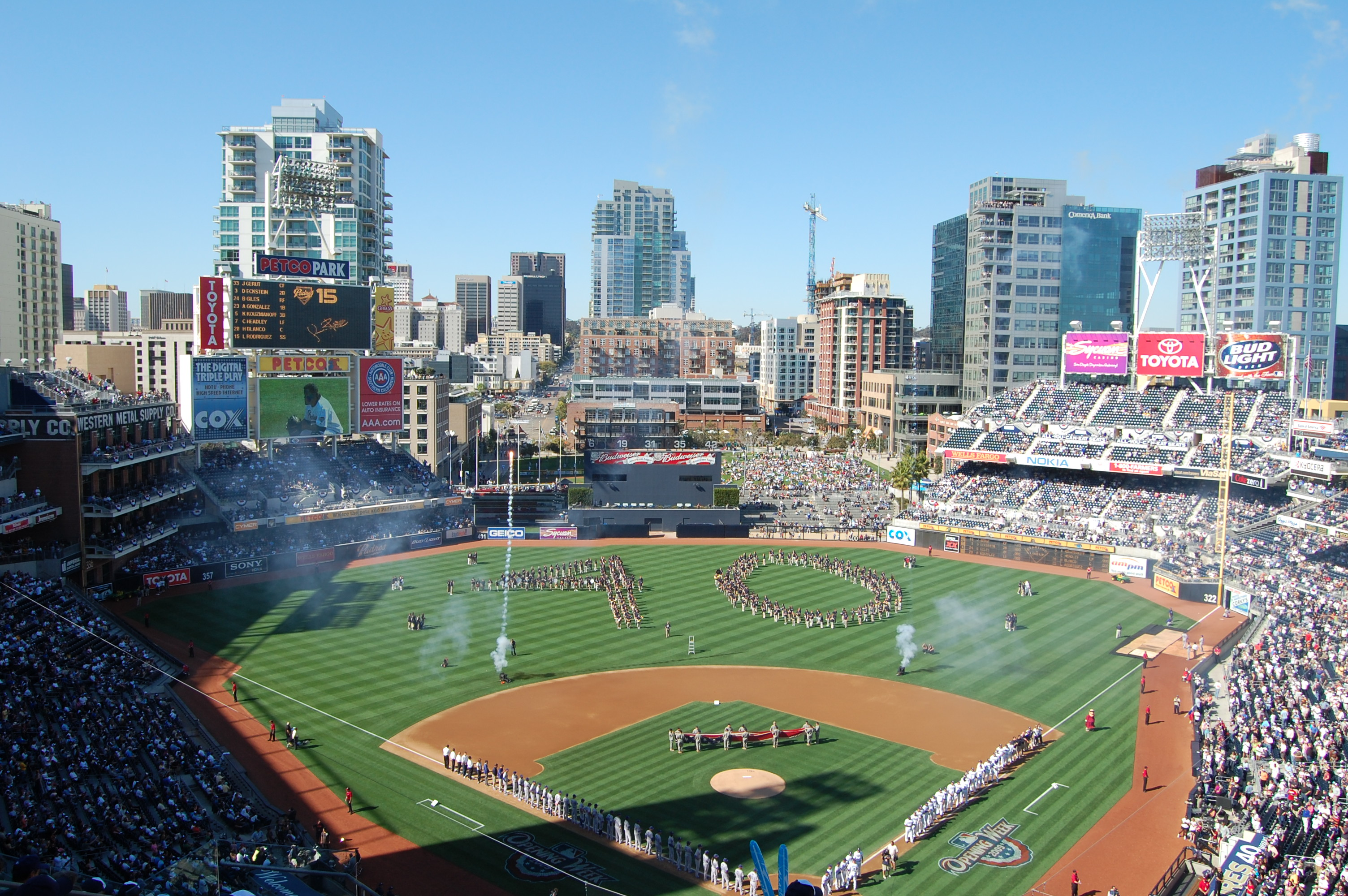 Petco Park